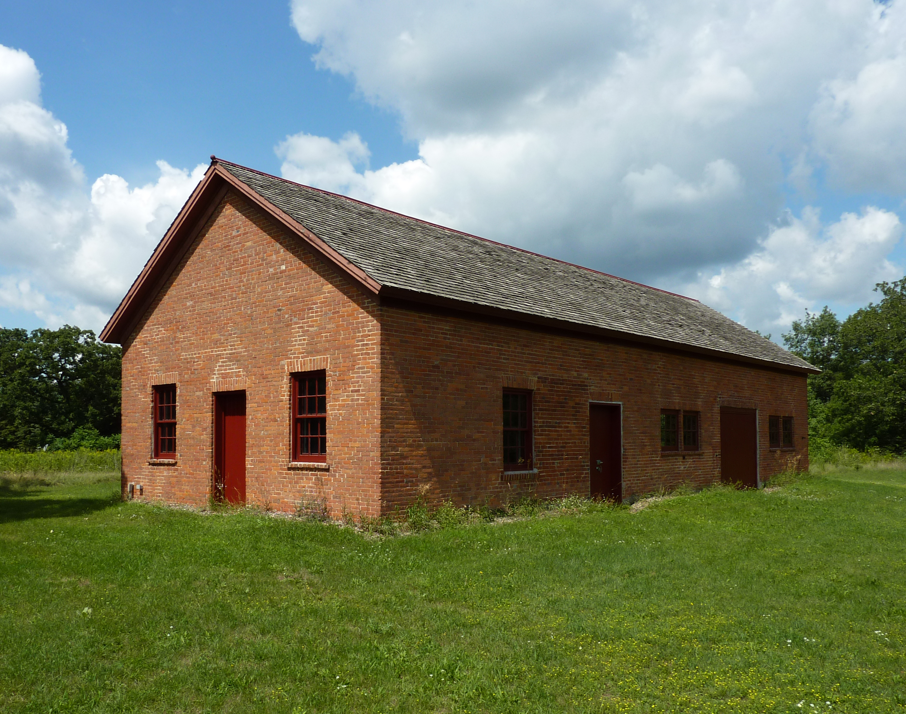 James J. Hill's North Oaks Farm, Blacksmith Shop and Machine Shop, North Oaks, Minnesota, USA.